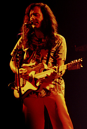 David Lindley, Chateau Neuf, Oslo, Norway